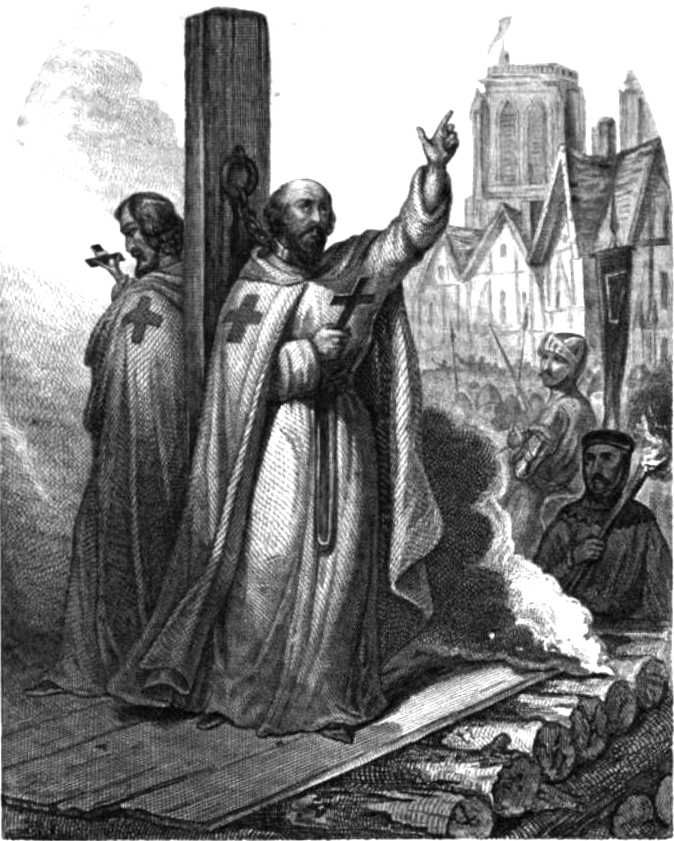 Jacques de Molay's Burning at the Stake